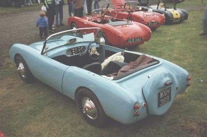 Berkeley Foursome at Quainton in the mid-1980's